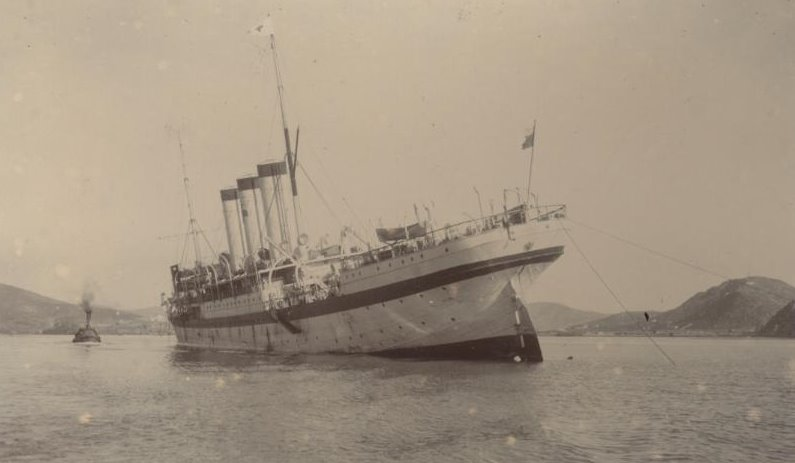 Hospital ship Moskva (former auxiliary cruiser Angara) sunk in the port of Port Arthur (Russian Empire), photographed on January 4 1905 (the day after the Japanese conquested it), as it appeared to Italian Admiral Ernesto Burzagli (1873-1944), Italian naval attaché in Tokio, who sailed from Yokohama (Japan) on a diplomatic mission to Port Arthur, during the Russo-Japanese War. The original picture, scanned by Emiliano Burzagli, belongs to the Private archive of Burzaghi family, Italy.